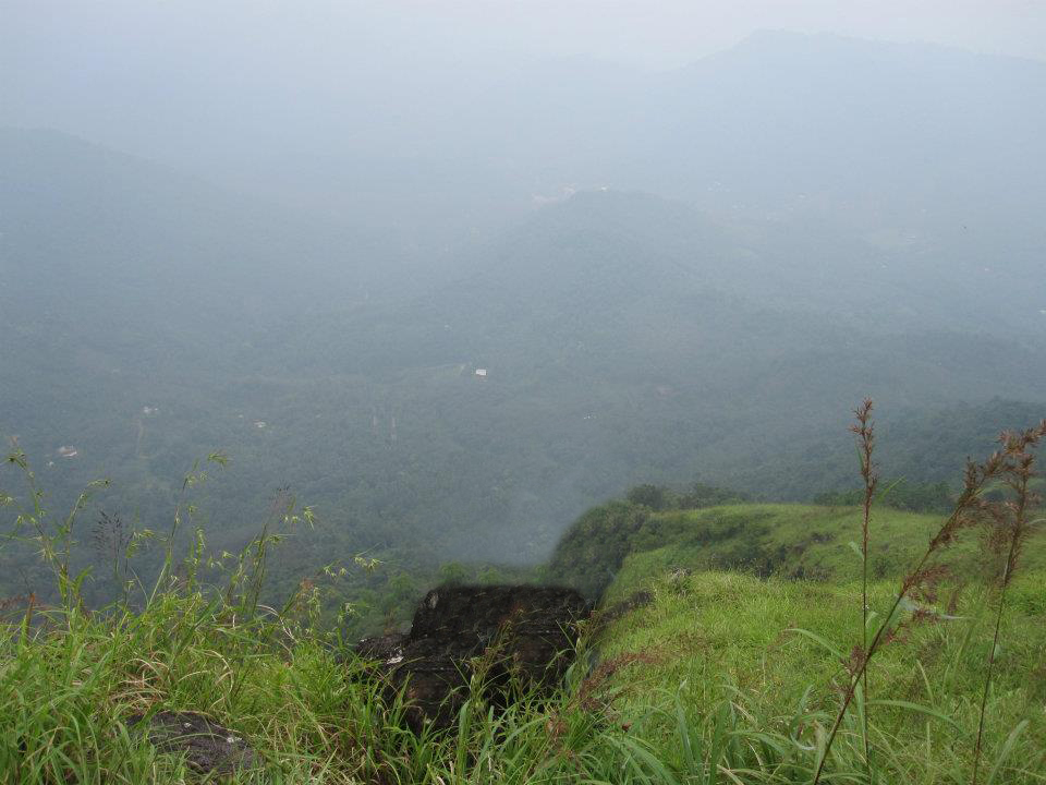 view from top of Paithal mala